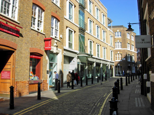 Floral Street, Covent Garden Showing the back of Stanford's map shop - nirvana for geographers!